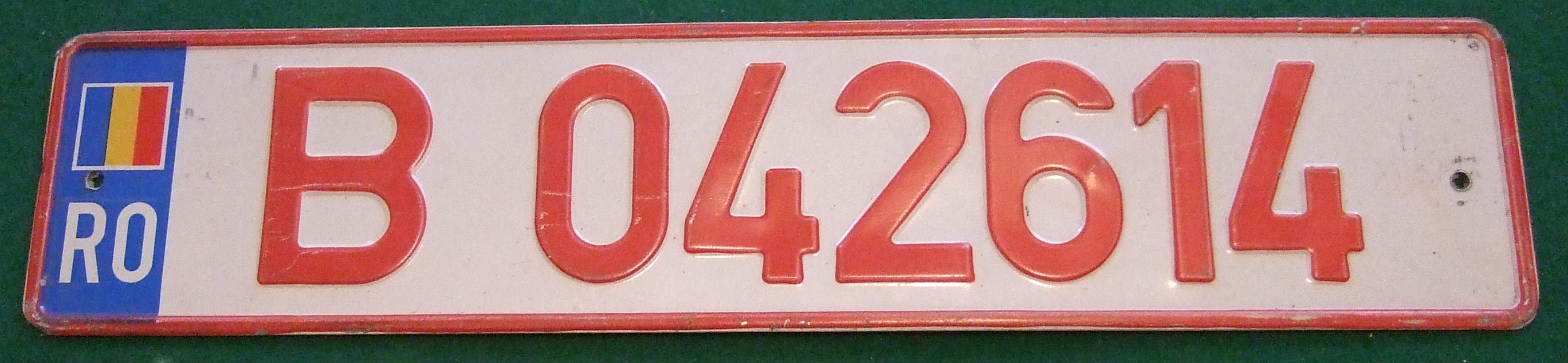 Romania temporary plate from Bucharest in red instead of black for regular passenger cars.